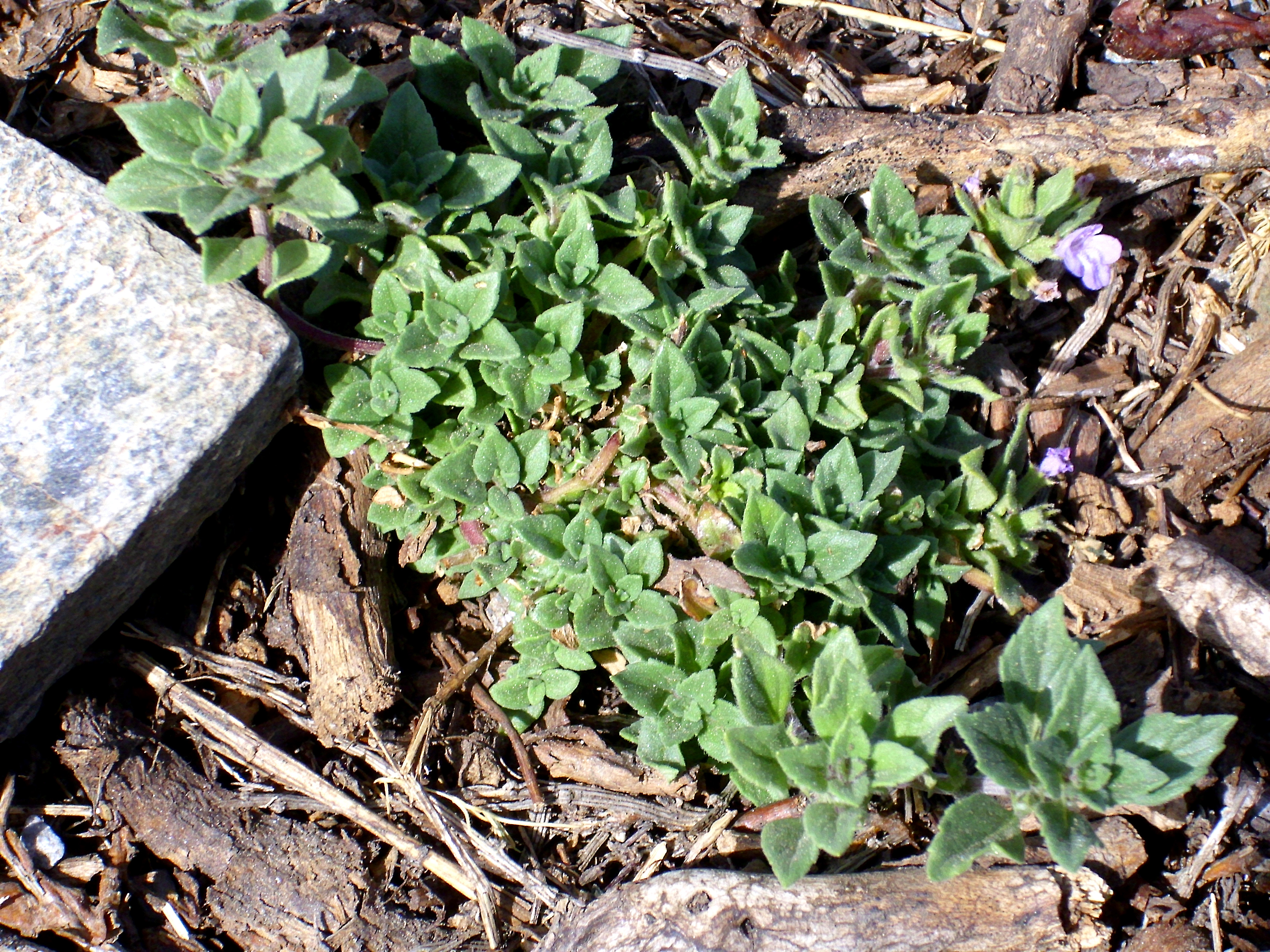 Acinos alpinus subsp. meridionalis habit, Sierra Nevada, Spain